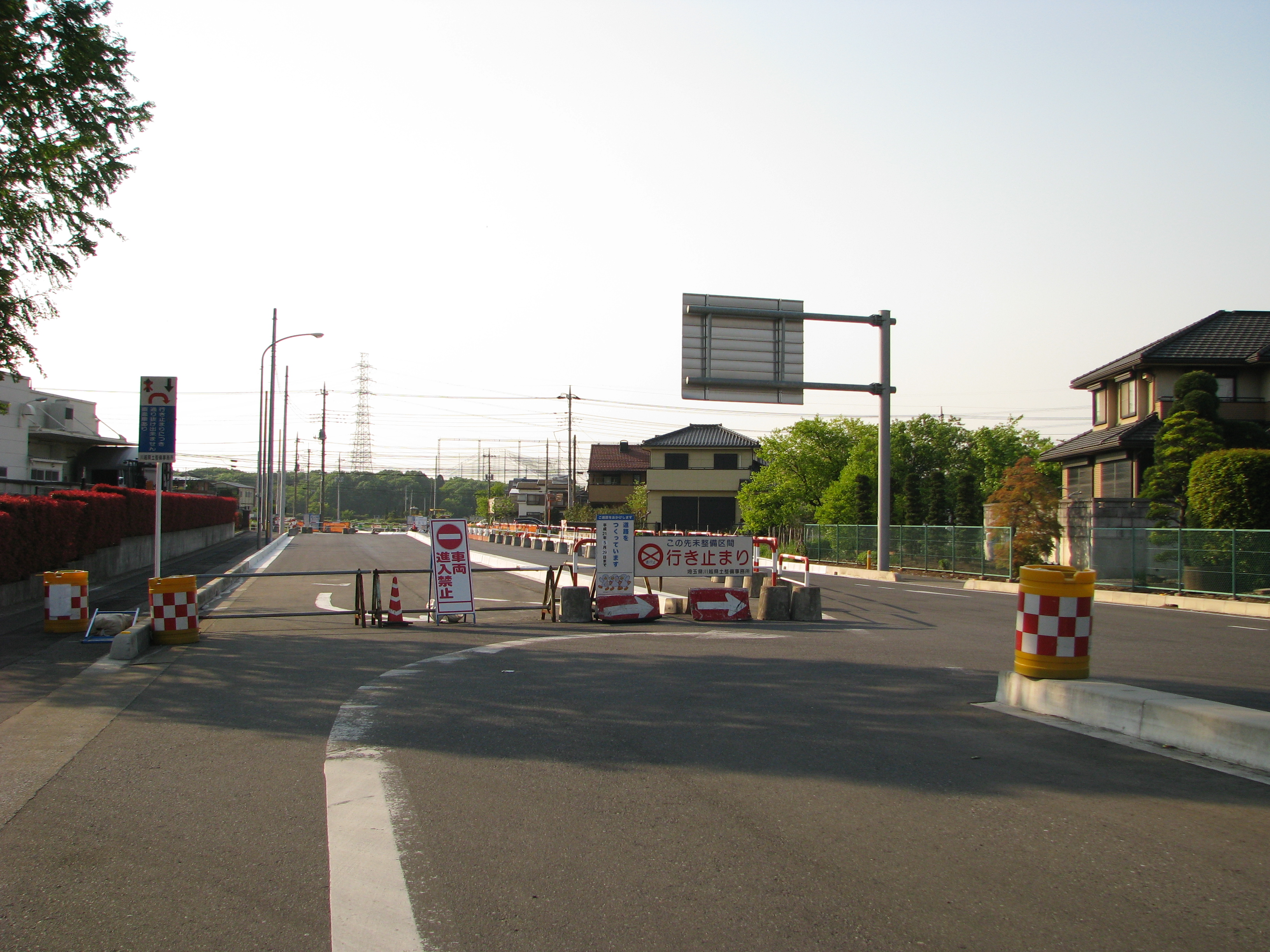 The Saitama Prefectural Road Route 126 at Shinkai Intersection in Shimotomi, Tokorozawa City